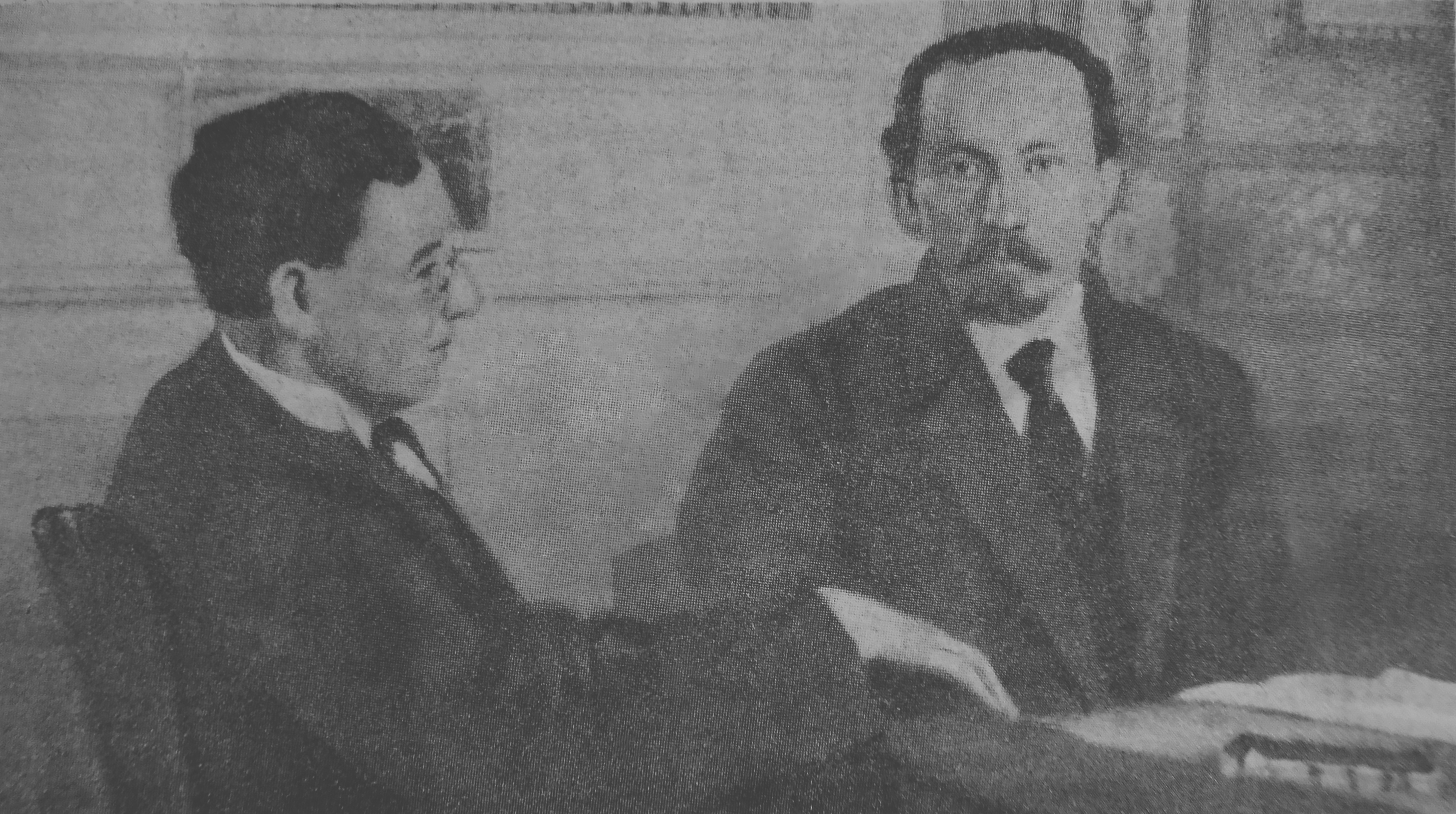 Moisei Uritsky, Chief of Cheka of Petrograd city and Nikolai Podvoisky People's Commissar of Military and Naval Affairs of the RSFSR. Petrograd 1917